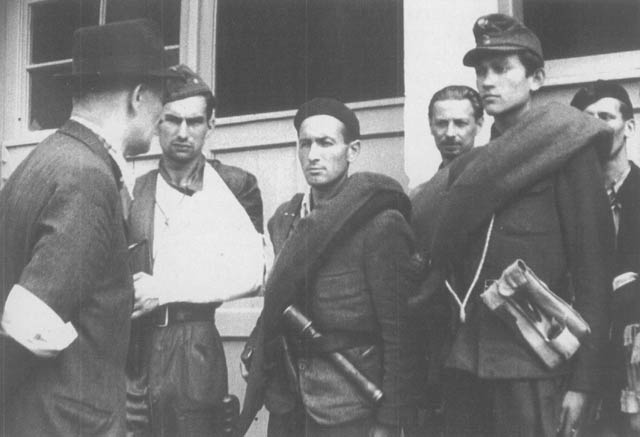 Warsaw Uprising: Commander of "Baszta" Stanisław Kamiński "Daniel", during inspection of "Krawiec" Company, from "Ryś" Battalion, at 132 Puławska Street in Warsaw. "Krawiec" Company just came from Kabacki Forest through Wilanów to Mokotów district bringing arms for "Baszta" Regiment. From the left: "Daniel", Henryk Maciejewski "Lech" (with injured arm), Jerzy Rossudowski "Stary" (in the back), Kazimierz Pyrka "Andrzej" (with a hand grenade) and Ksawery Frank "Kejstun" (in a hat with a visor).